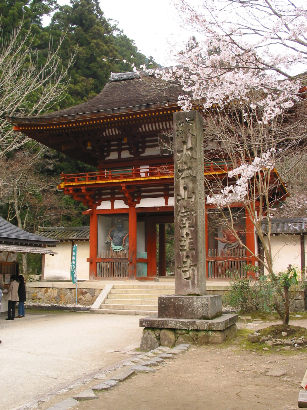 Niōmon Gate of Murouji at Uda, Nara, Japan. Place:Murou Uda, Nara Pref. Japan